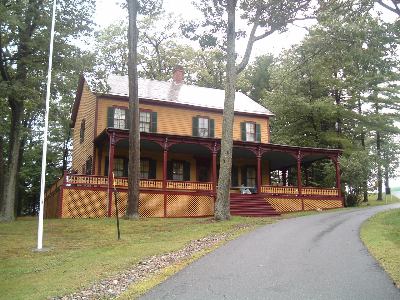 Cottage where U.S. General and former-President Ulysses S. Grant spent his last days.